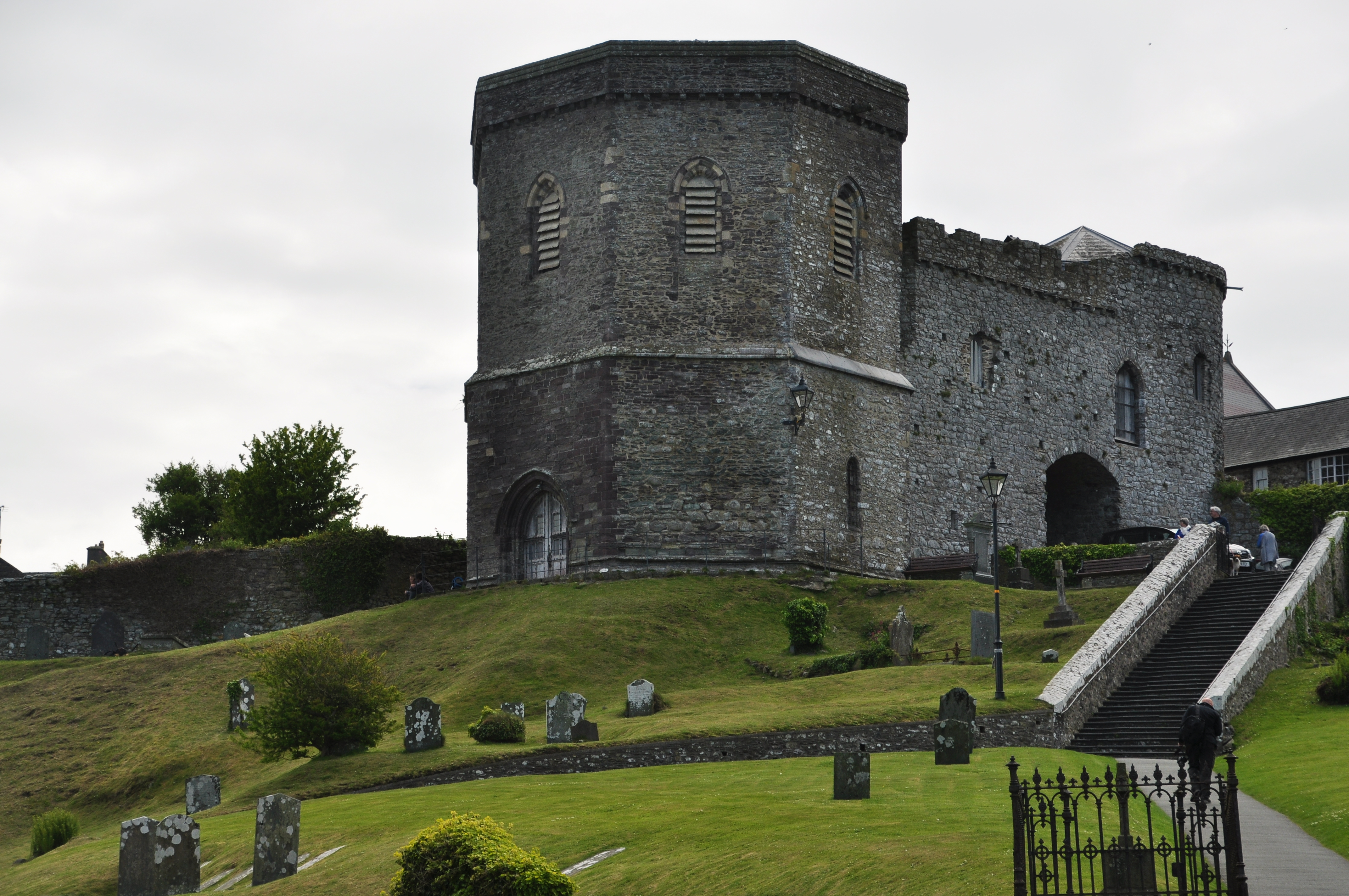 Porth y Tŵr